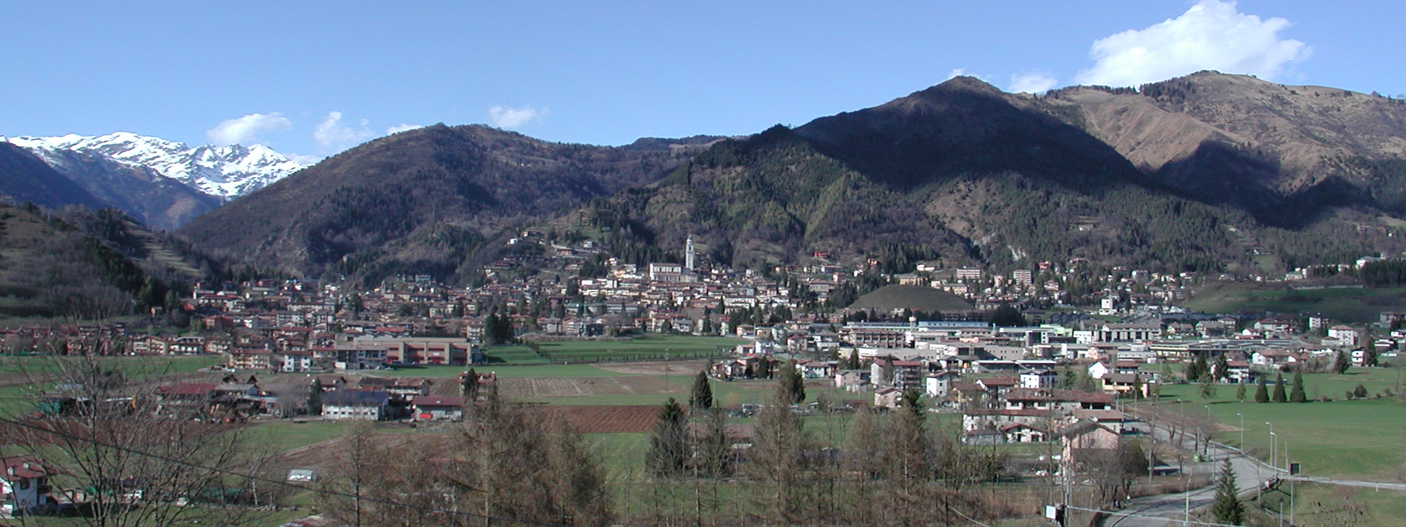 Clusone, Italy